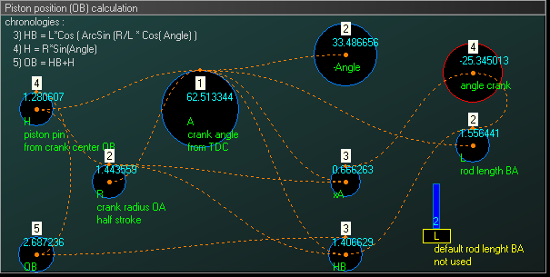 Piston motion equation stock and flow diagram, created by contributor, made with software TRUE (Temporal Reasoning Universal Elaboration) True-World